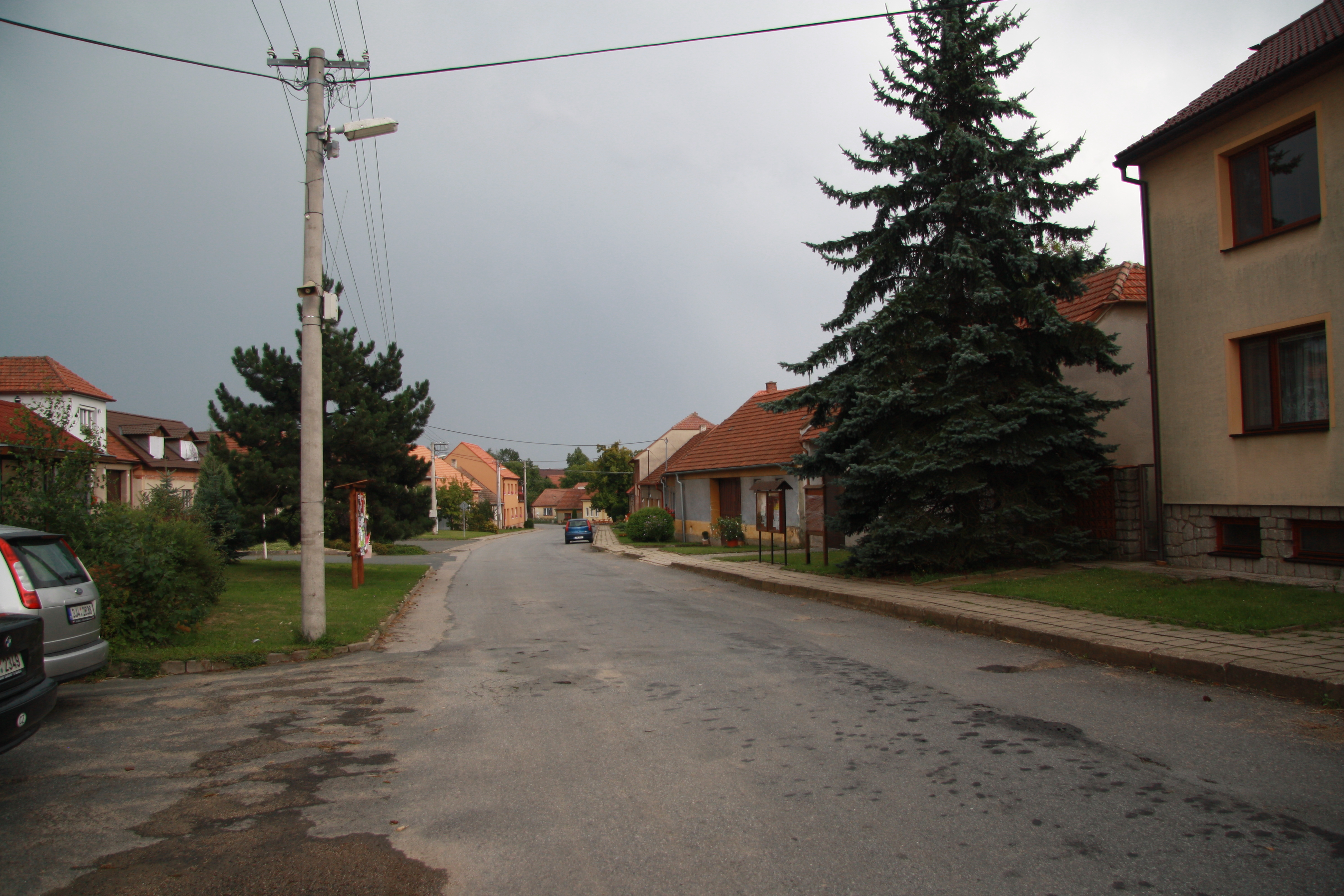 Center of Čikov, Třebíč District.